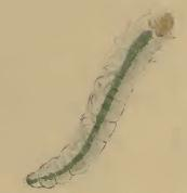 Stainton’s Natural History of the Tineina (1855–1873): Mompha terminella